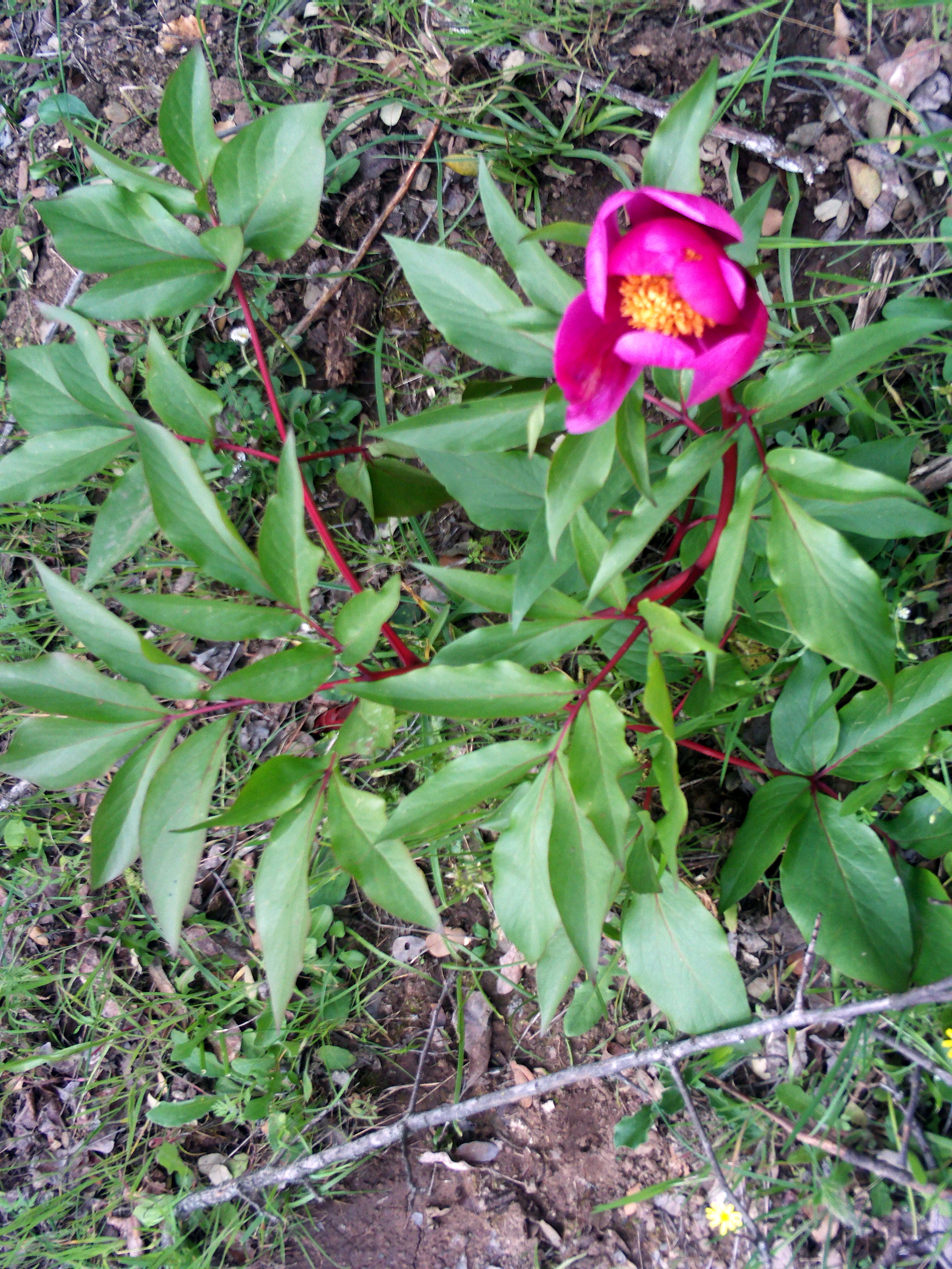 Paeonia broteri plant habit, Dehesa Boyal de Puertollano, Spain